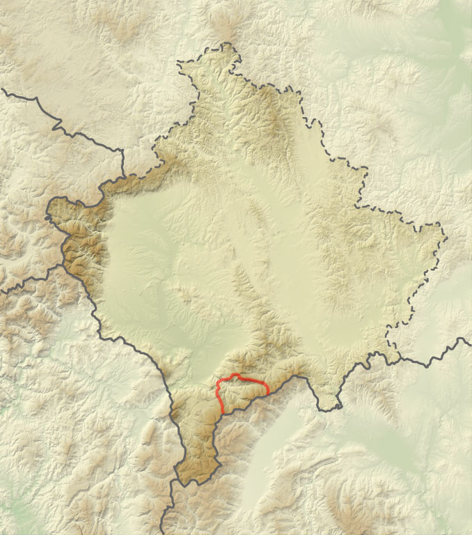 Sredačka Župa region on relief map of Kosovo.